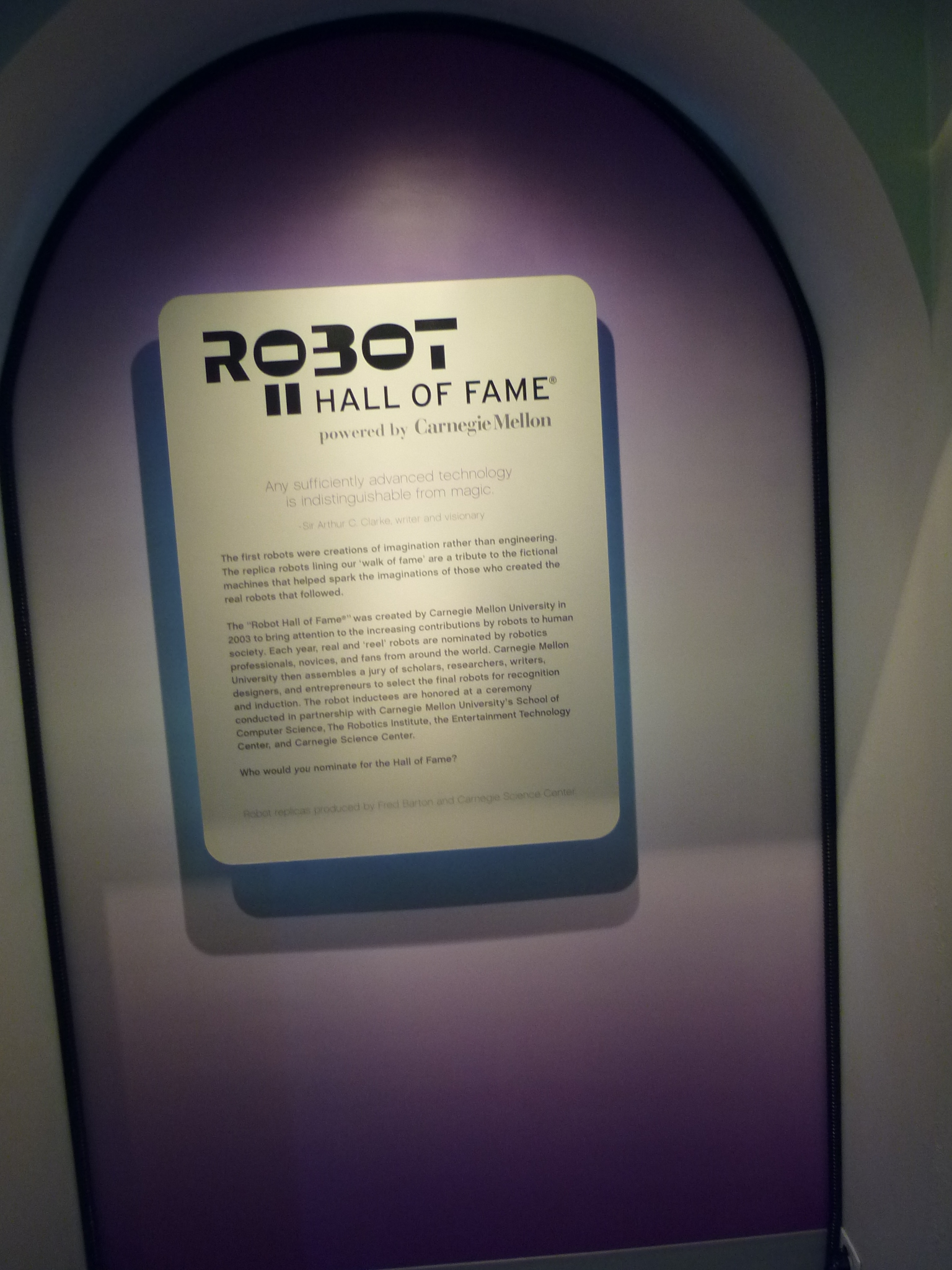 Robot Hall of Fame display at the Carnegie Science Center in Pittsburgh, PA.